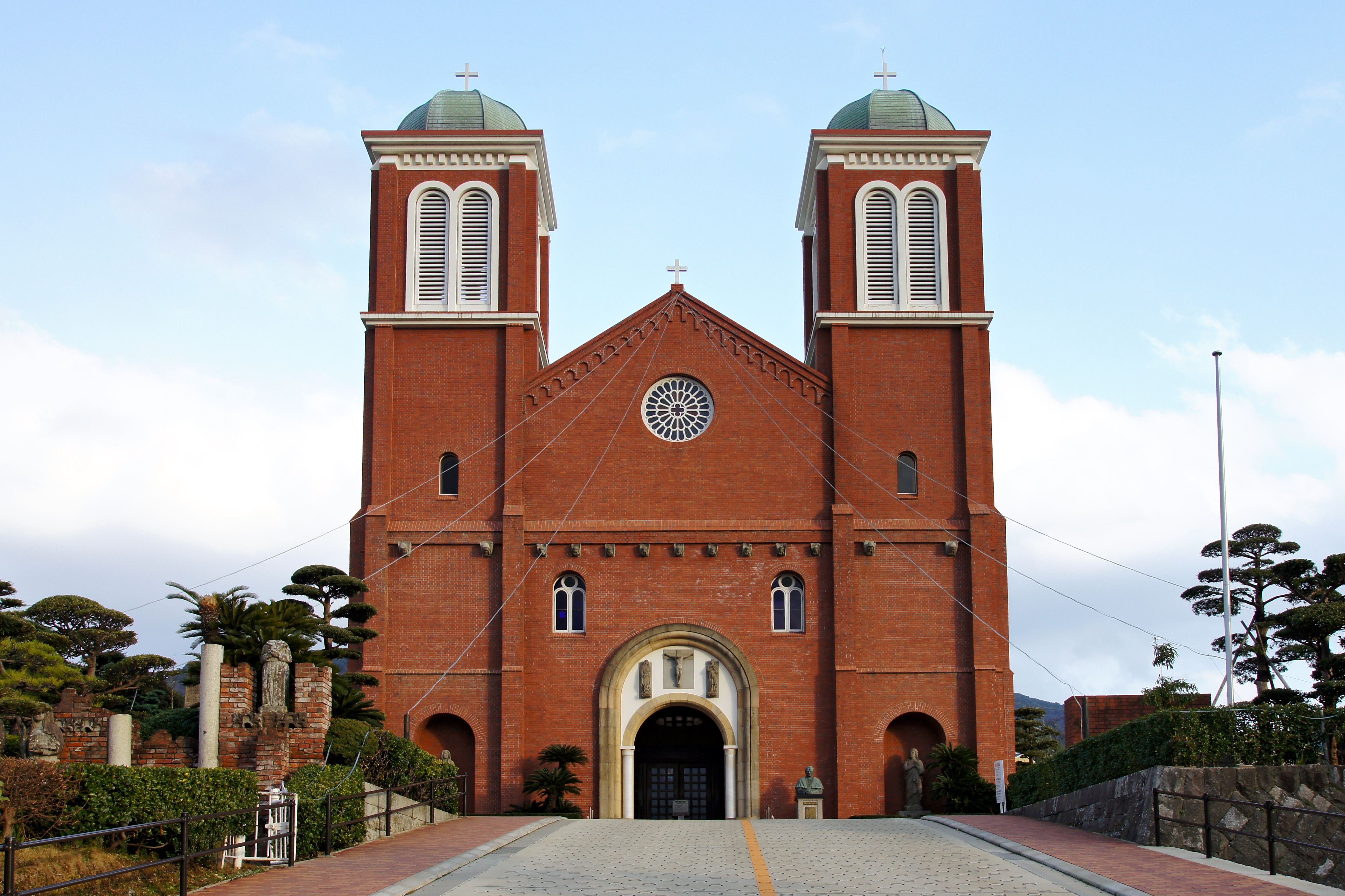 At Urakami Cathedral in Nagasaki, Nagasaki prefecture, Japan.